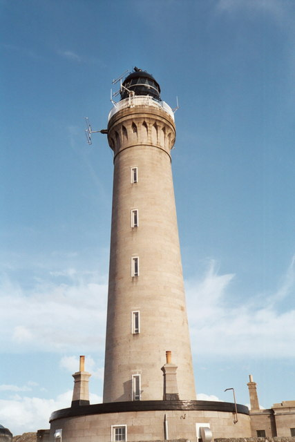 Ardnamurchan lighthouse.